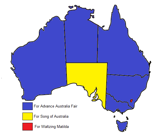 Australian national song referendum results by states For Advance Australia Fair For Song of Australia For Waltzing Matilda